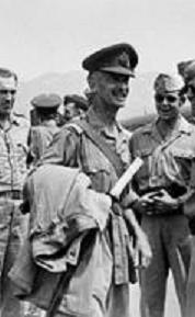 Portait of Major-General Sir Christopher Maltby, General Officer Commanding Hong Kong at the time of the Japanese attack in 1942, seen talking to United States Military Police on his arrival at Chungking airport, China, after his release from captivity.